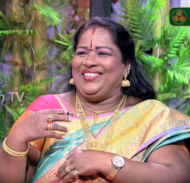 Chinnaponnu during an interview with Puthuyugam TV VJ Anjana